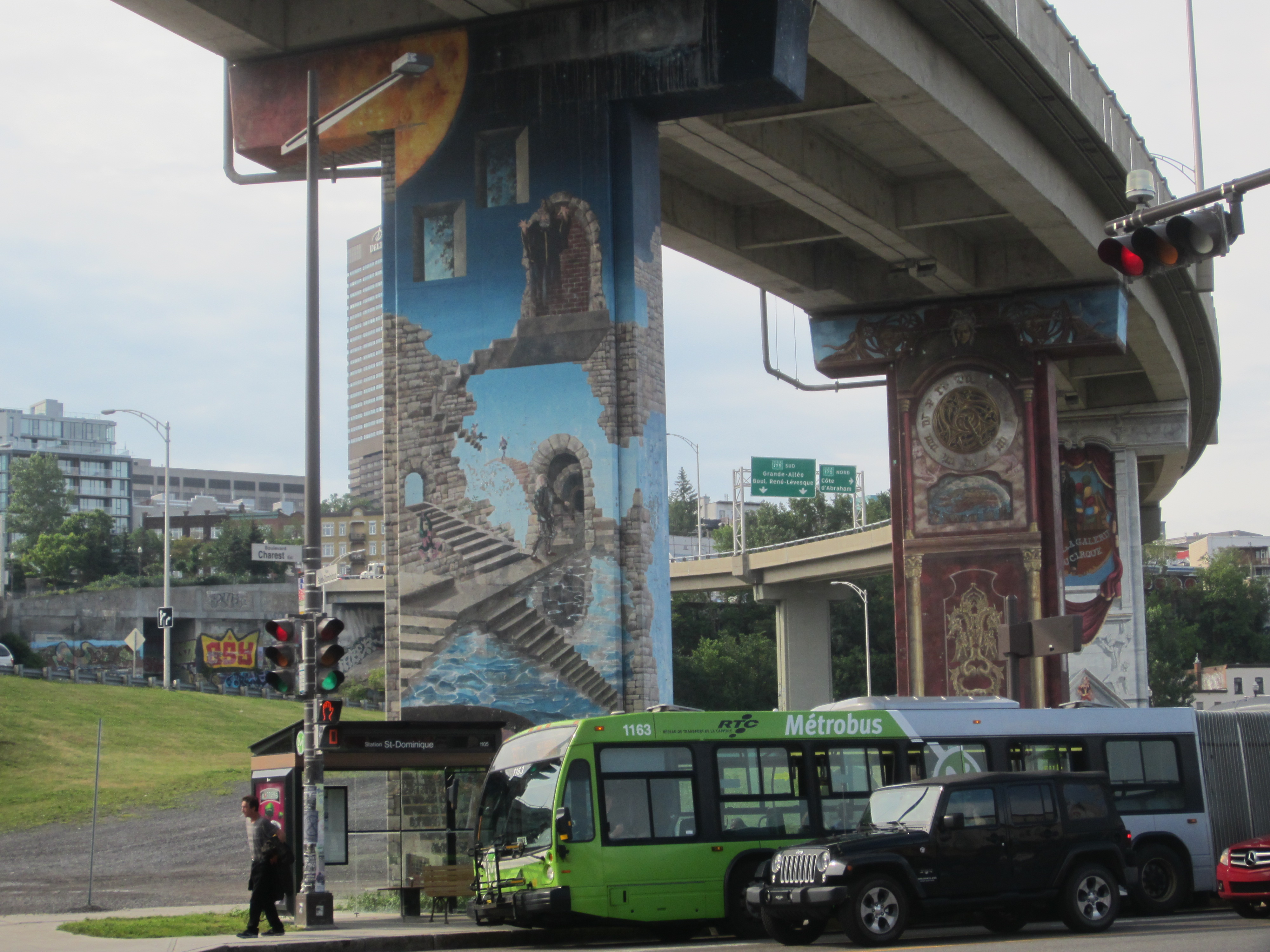 Street art on the pillars of Highway 440 leading to Old Quebec